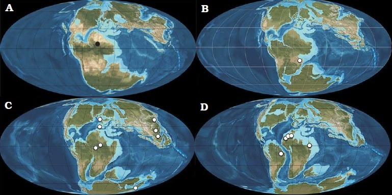 Generalized palaeogeographic locations of spinosaurids (white) and the specimen of HB site (black), through time from Bajocian–Bathonian (A), Tithonian (B), Barremian−Aptian (C), and Albian−Cenomanian (D).